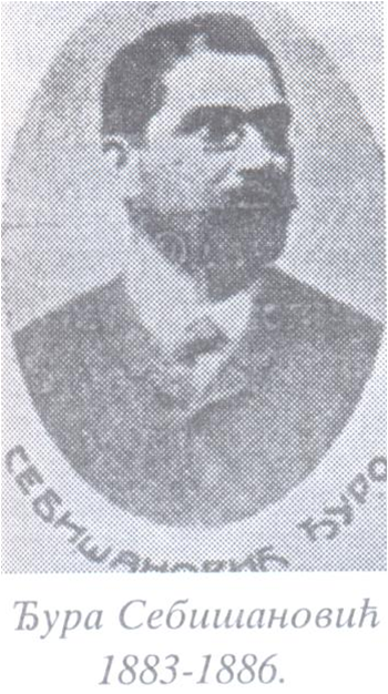 First school principal